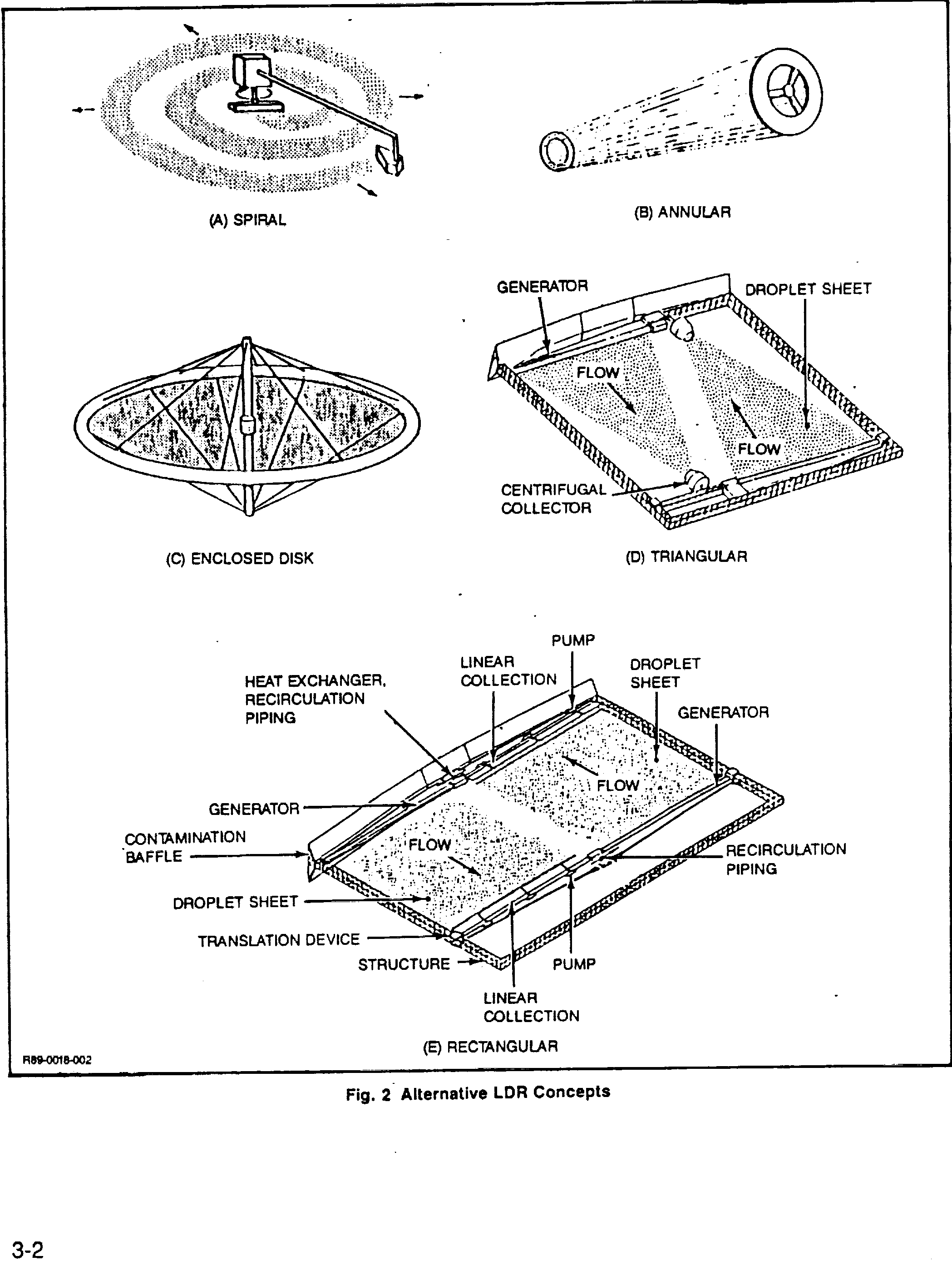 image showing the different Liquid Droplet Radiator concept configurations